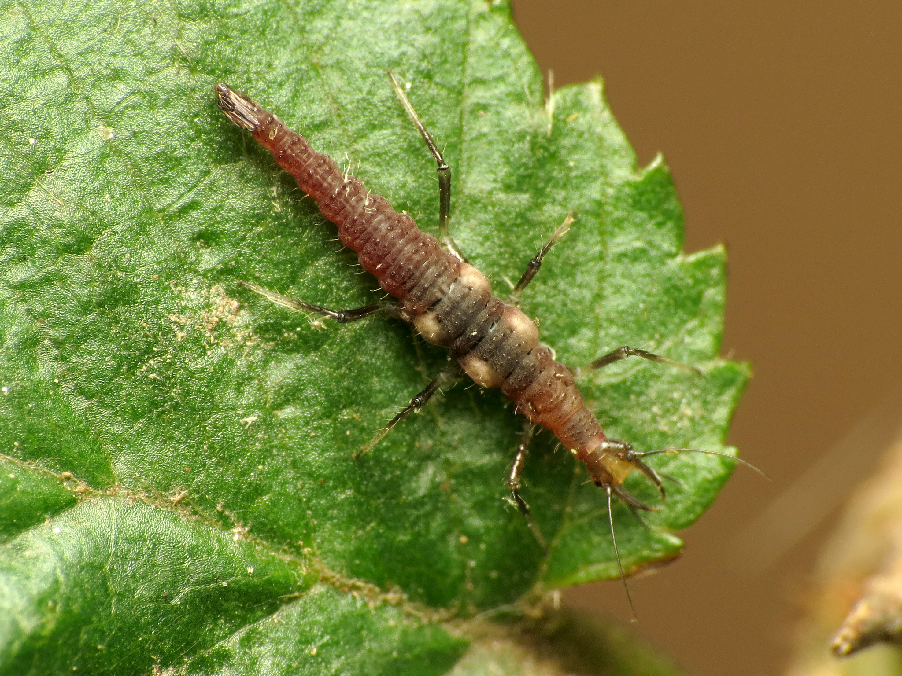 Rock Creek Park, Washington, DC, USA.